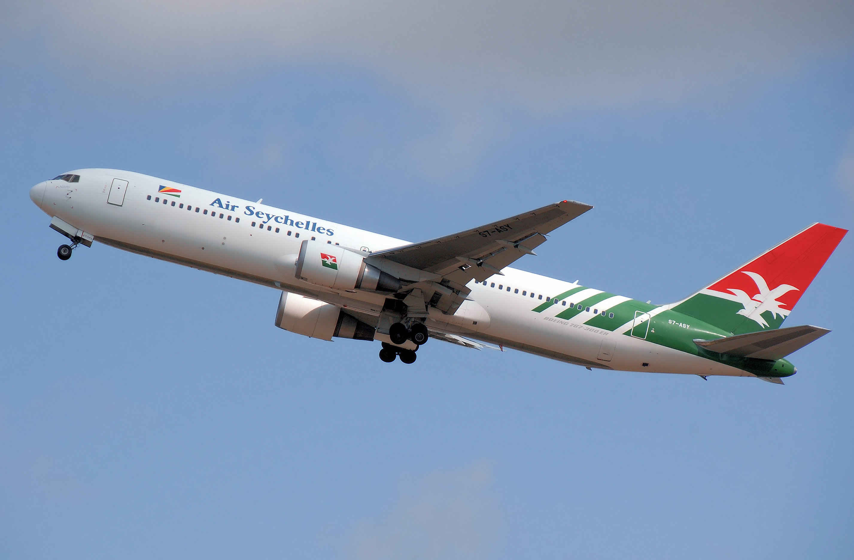 Air Seychelles Boeing 767-300ER (S7-ASY) takes off from London Heathrow Airport, England.